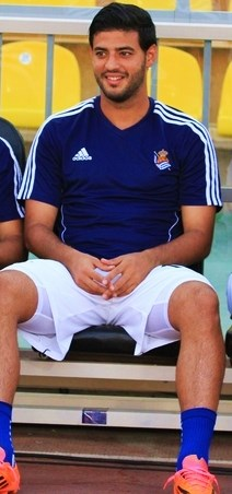 Carlos Vela